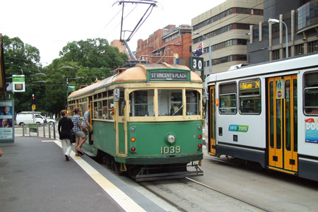 Number 30 Tram 1039 at St Vincent's Plaza on Victoria Parade, East Melbourne